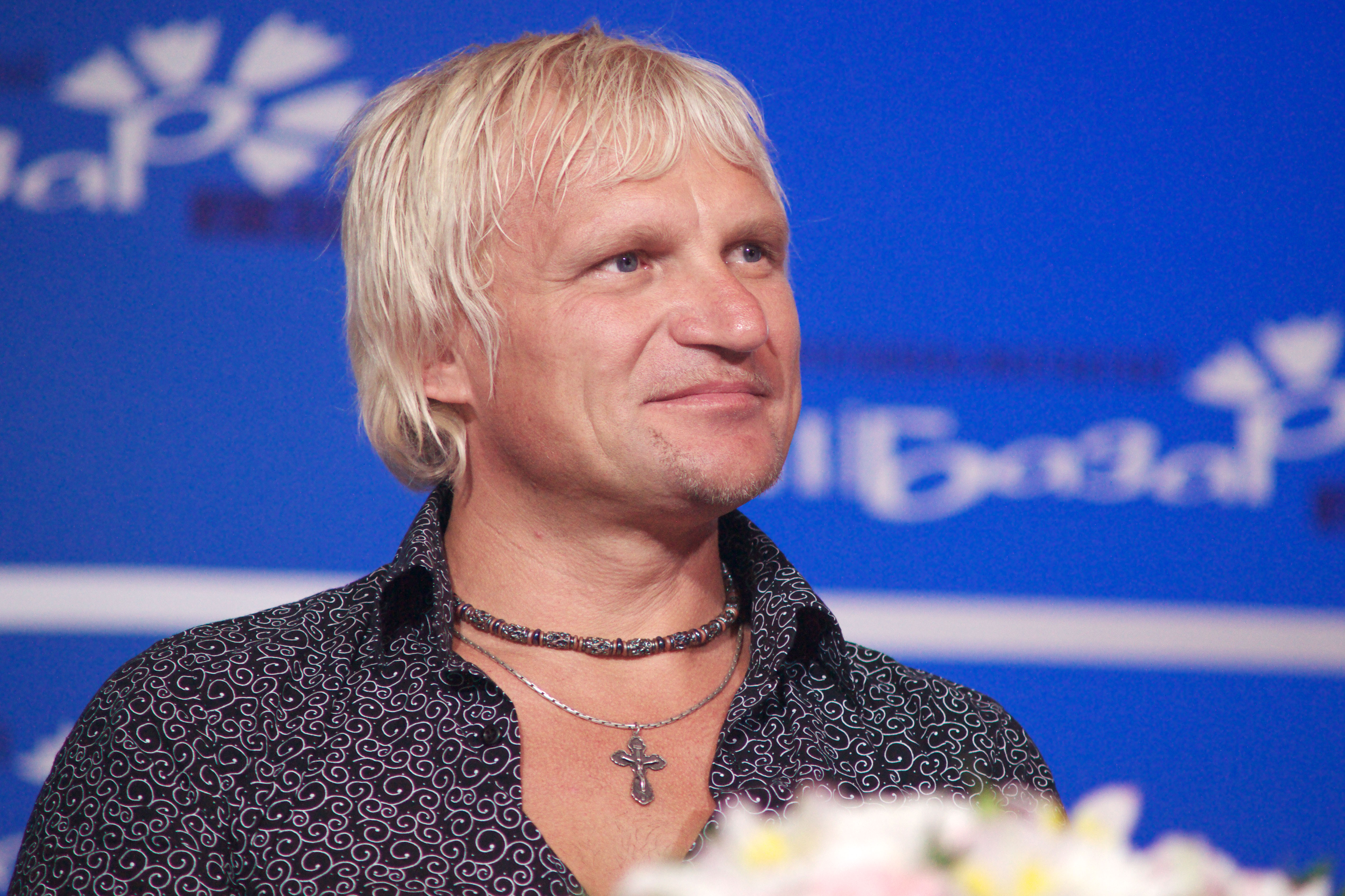 Oleh Skrypka, Ukrainian musician,at "Slavonic Bazaar in Vitebsk"